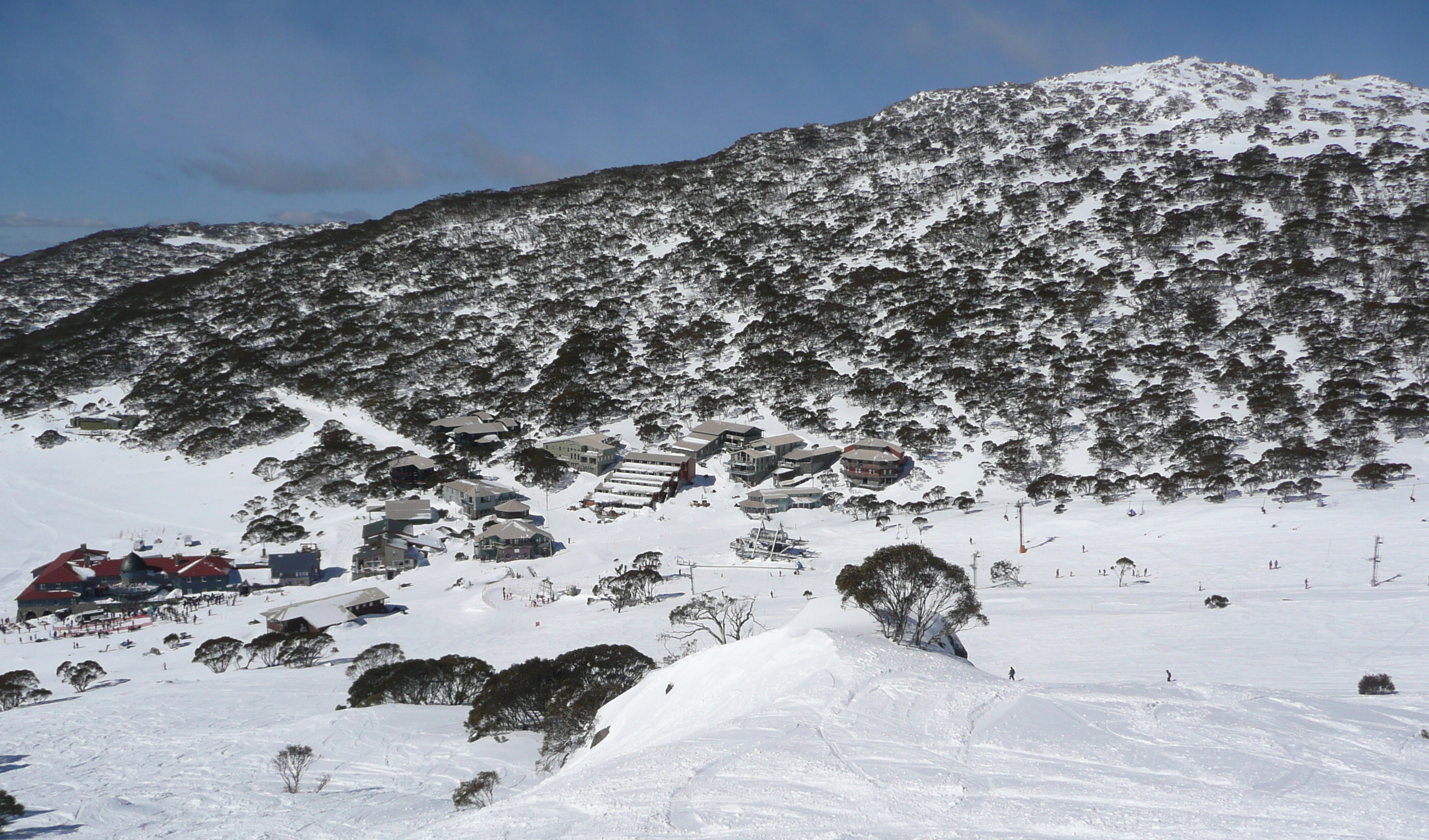 View of Charlotte Pass Village, Australia, on 13 Ausgust 2008 taken from the top of Pulpitt T-bar ski lift. End of Stillwell Ridge at the top right, The Chalet at the bottom left. Ski lifts visible are Basin J-bar (poma), moving carpet, and Kangaroo Ridge triple chair lift.